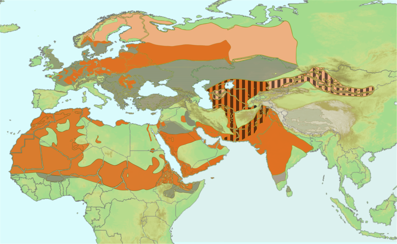 Distribution of Lanius excubitor (with L. (e.) pallidirostris red: breeding (year round); pink: breeding (summer); grey stripes: winter and nonbreeder; black broad stripes: L. (e.) pallidirostris